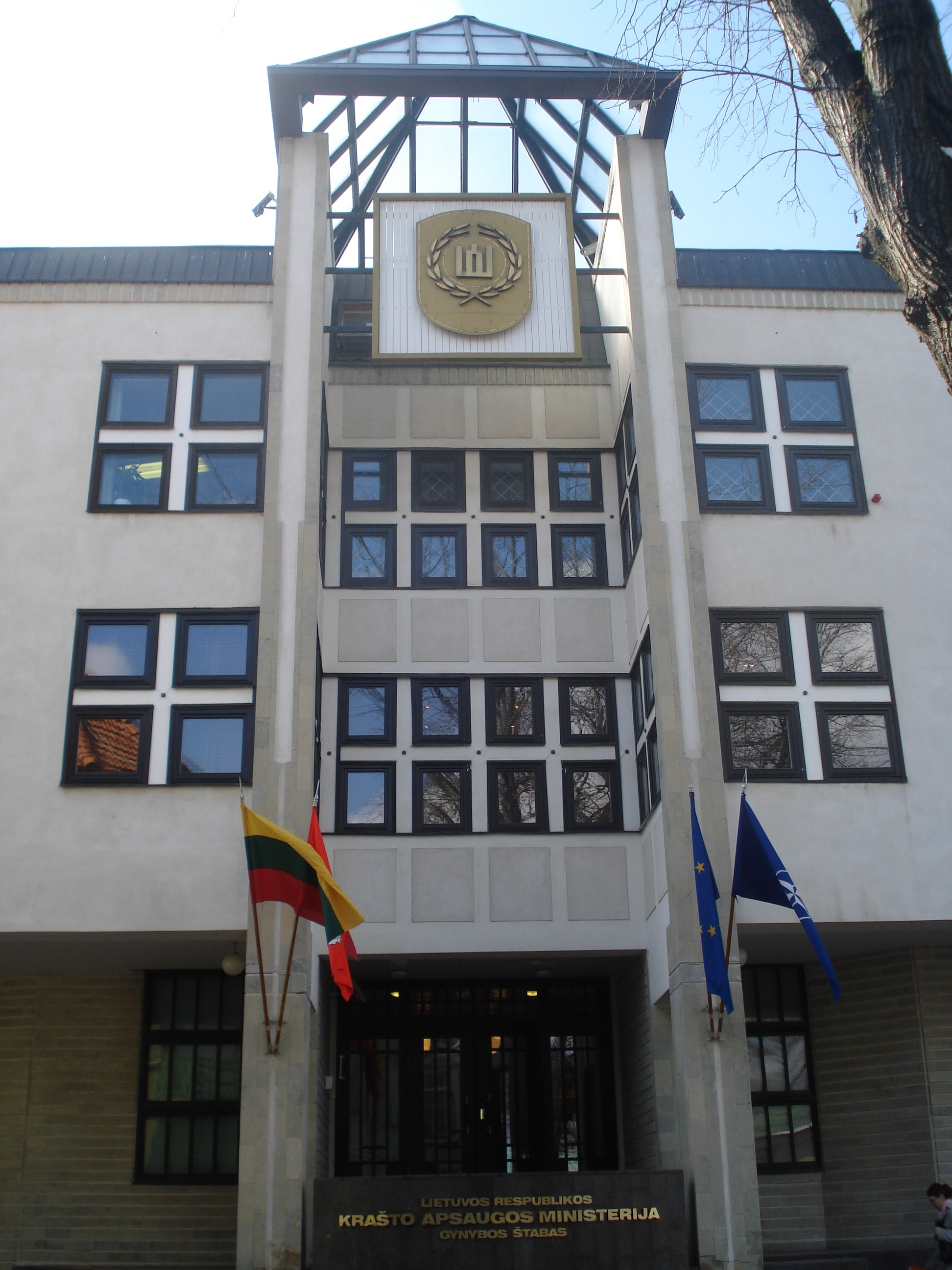 The Defence Staff of the Ministry of National Defence of Lithuania. Krašto apsaugos ministerijos Gynybos štabas. Totorių g. 25/3. Project by Elena Nijolė Bučiūtė. 1998